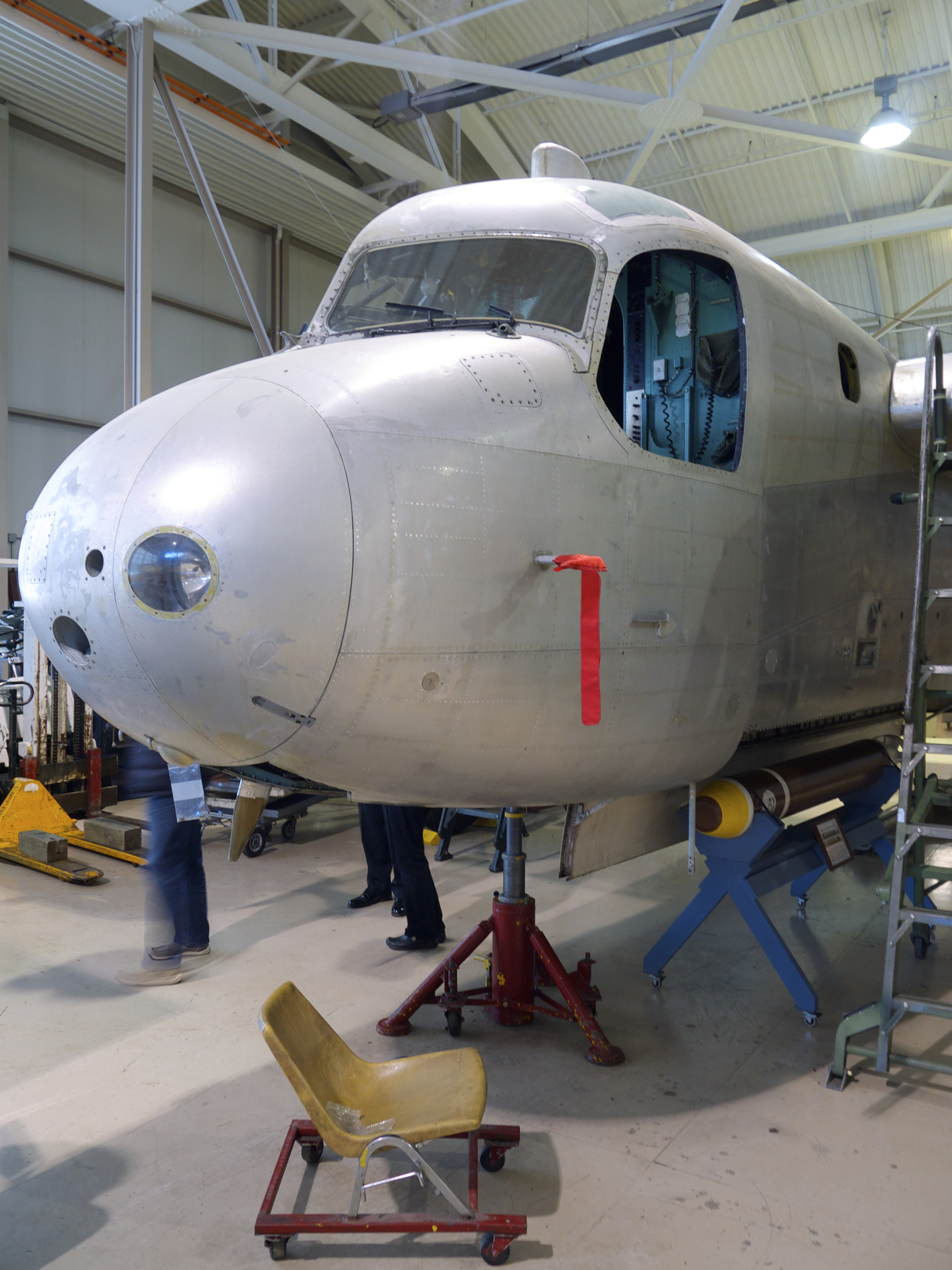 Grumman CS2F-2 Tracker at Canadian Warplane Heritage Museum.